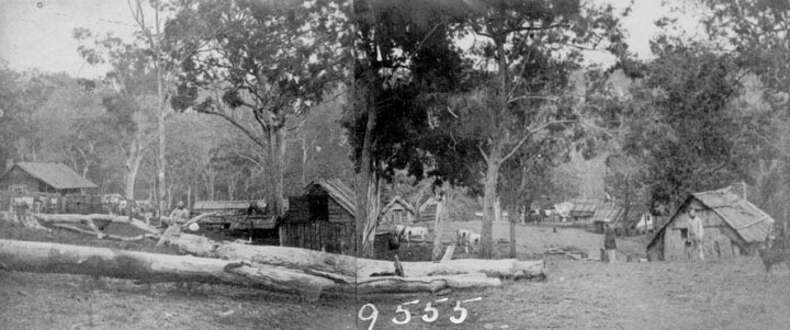 Contractor's Yard, Ballard's Camp during the construction of the Ipswich to Toowoomba Railway.